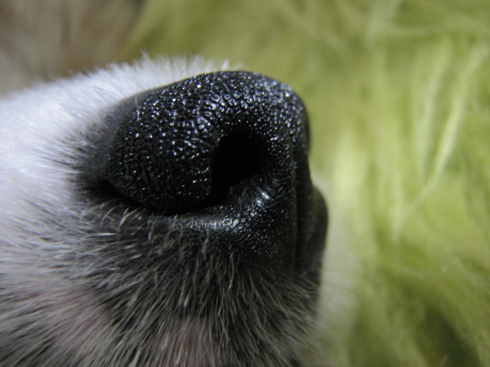 The nose of a three-week-old Chinese crested dog puppy.